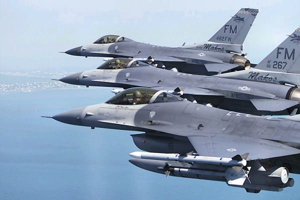 F-16Cs of the 482d Fighter Wing at Homestead JARB, Florida.